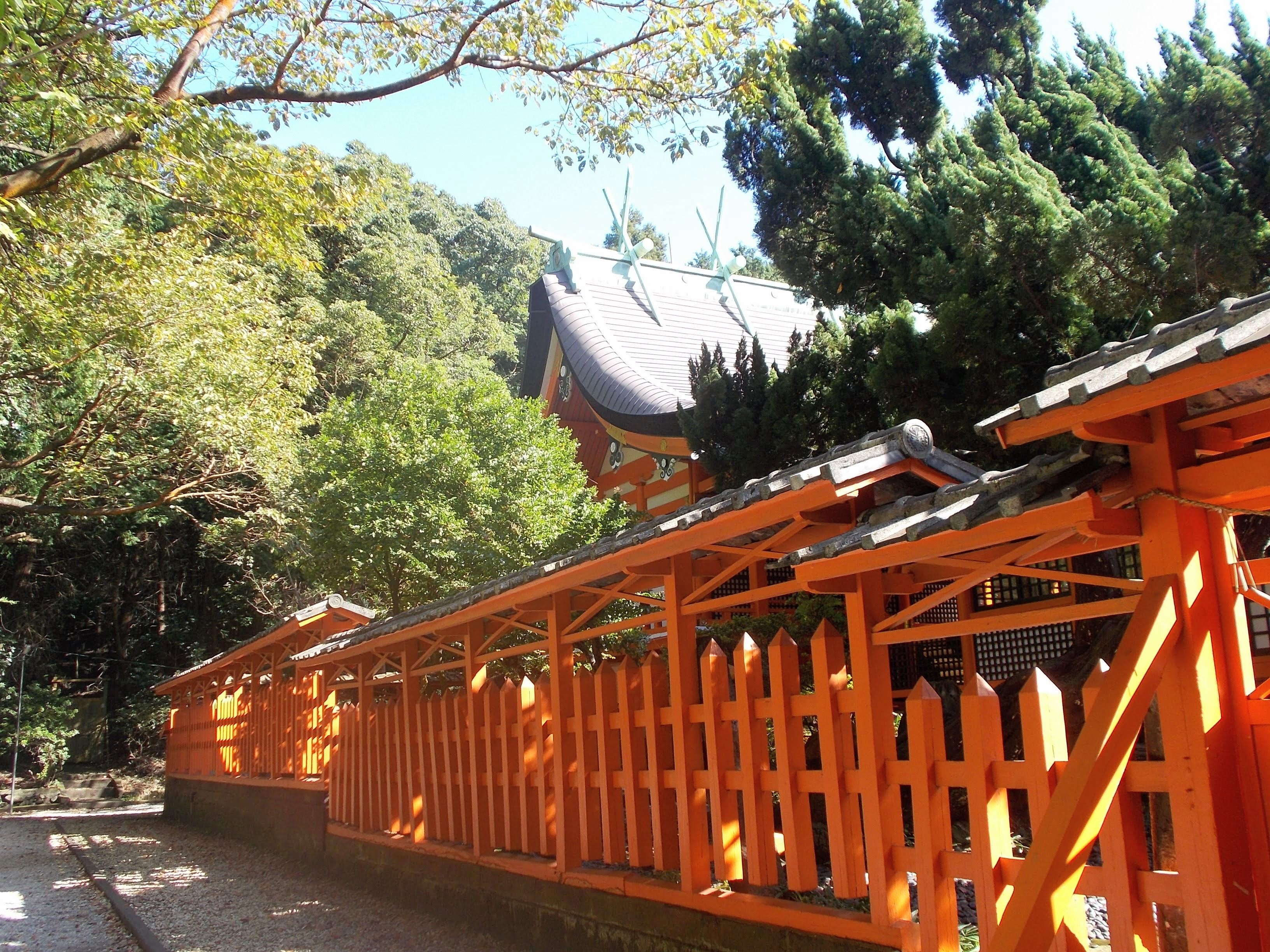 Hayasuihime-jinja's Honden, Oita, Oita, Japan